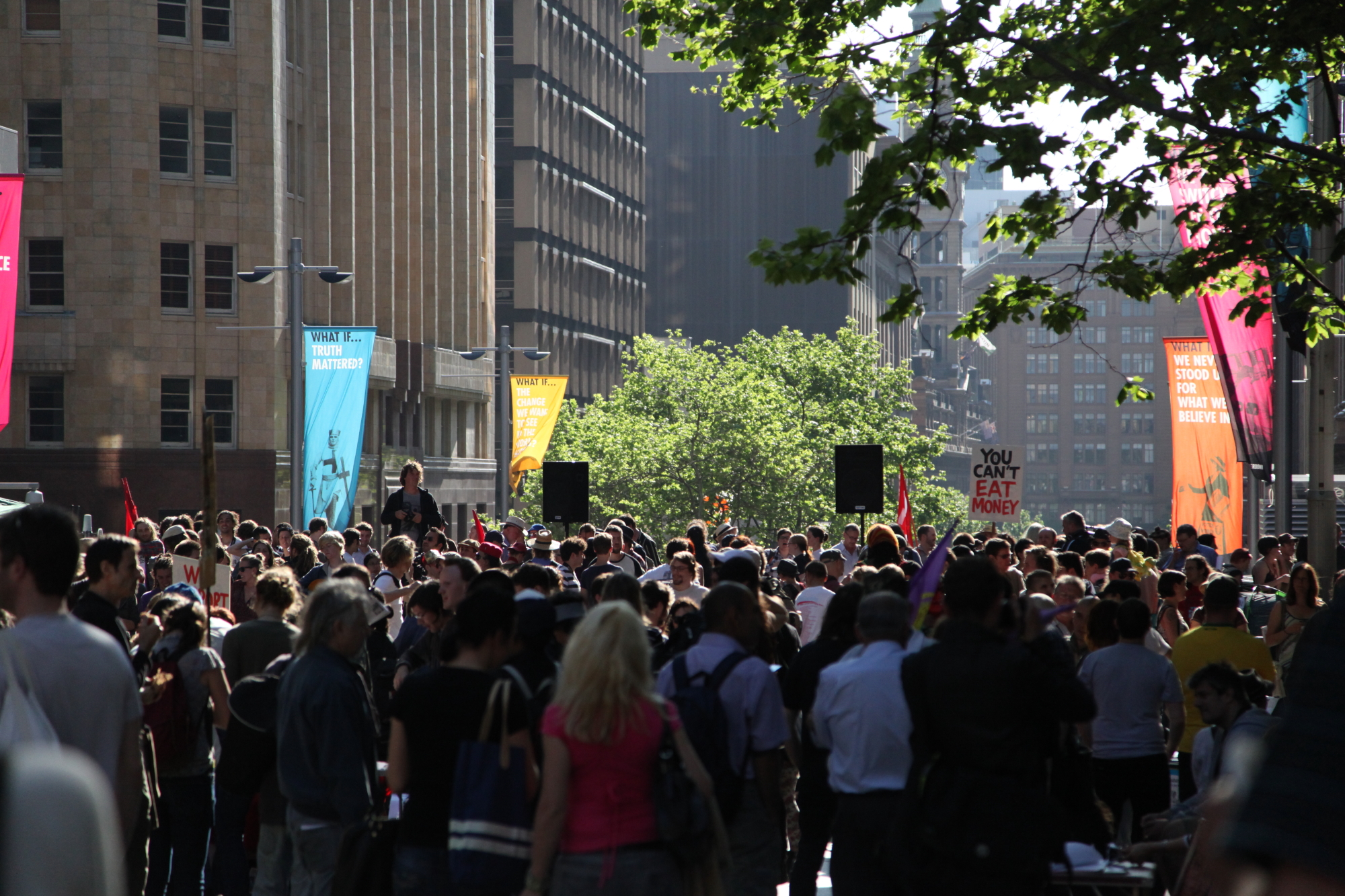 Martin Place during the October 2011 Occupy Sydney protests.